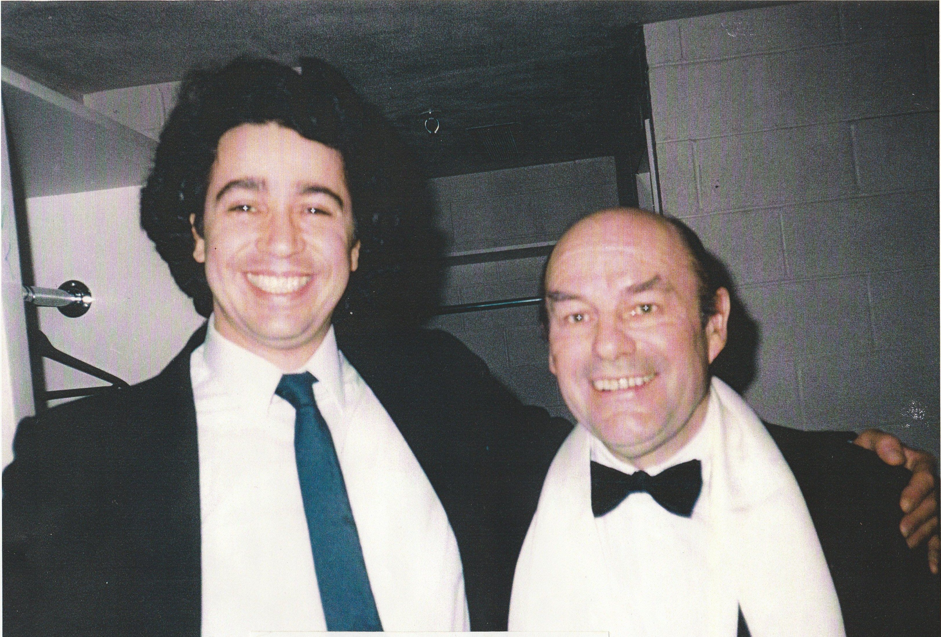 Very young, Michael won a competition to study with the great master guitarist and lute player. Only 15 students were chosen by Sir Julian Bream. October 3, 1989; photo by Christina Arenella, New York. Press secretary to Michael Laucke. If you use this photo, you must use the correct attribution, which is at least: Michael Laucke and Julian Bream